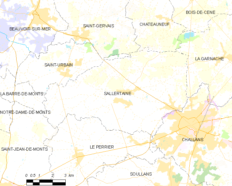 Map of French municipality Sallertaine